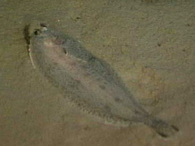 The witch flounder, or Glyptocephalus cynoglossus, feeds on small shrimp, marine worms, and small mollusks. Its grayish-white body allows it to blend into the muddy bottom.